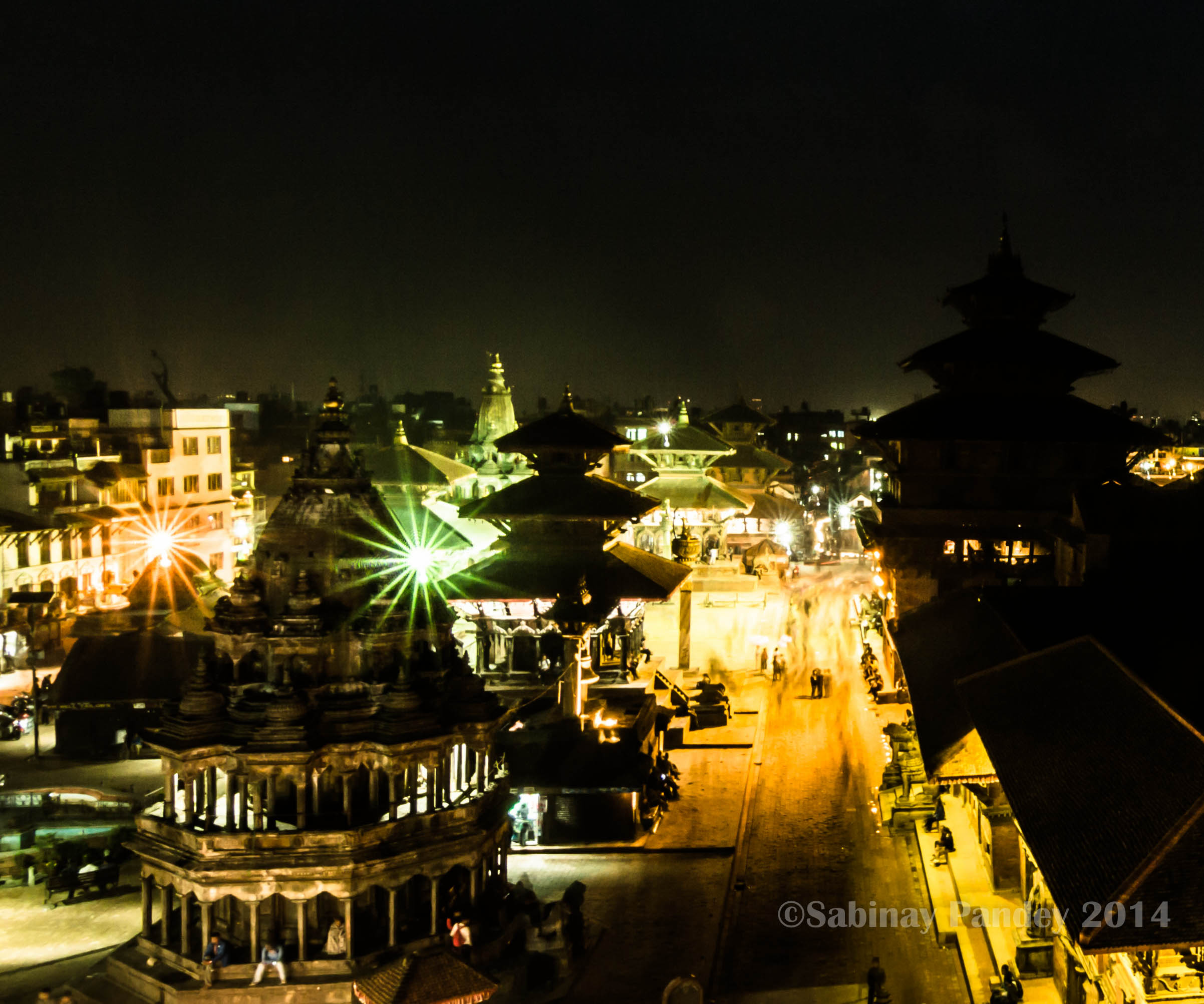 Beautiful view of Patan Durbar Square at night.